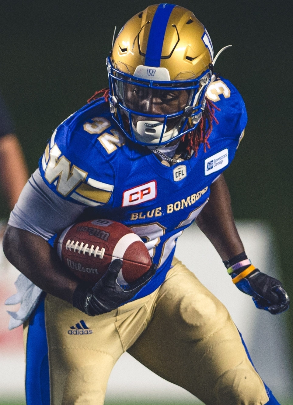 Tim Flanders (32) of the Winnipeg Blue Bombers during the pre-season game at TD Place in Ottawa, ON on Monday June 13, 2016. (Photo: Johany Jutras)